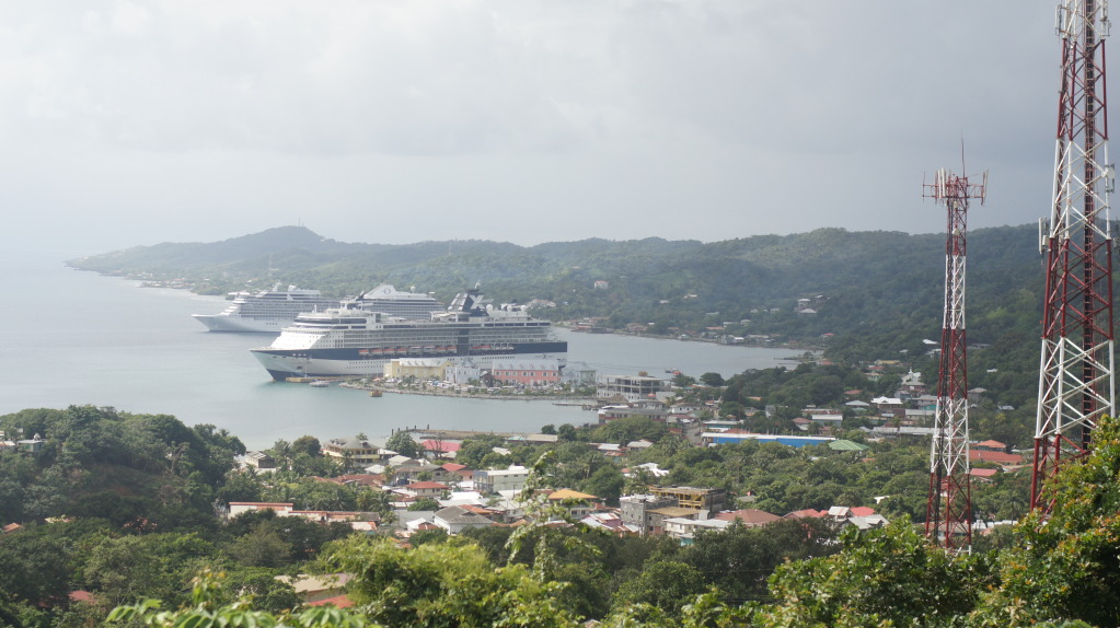 Coxen Hole, Roatan, Bay Islands, Honduras